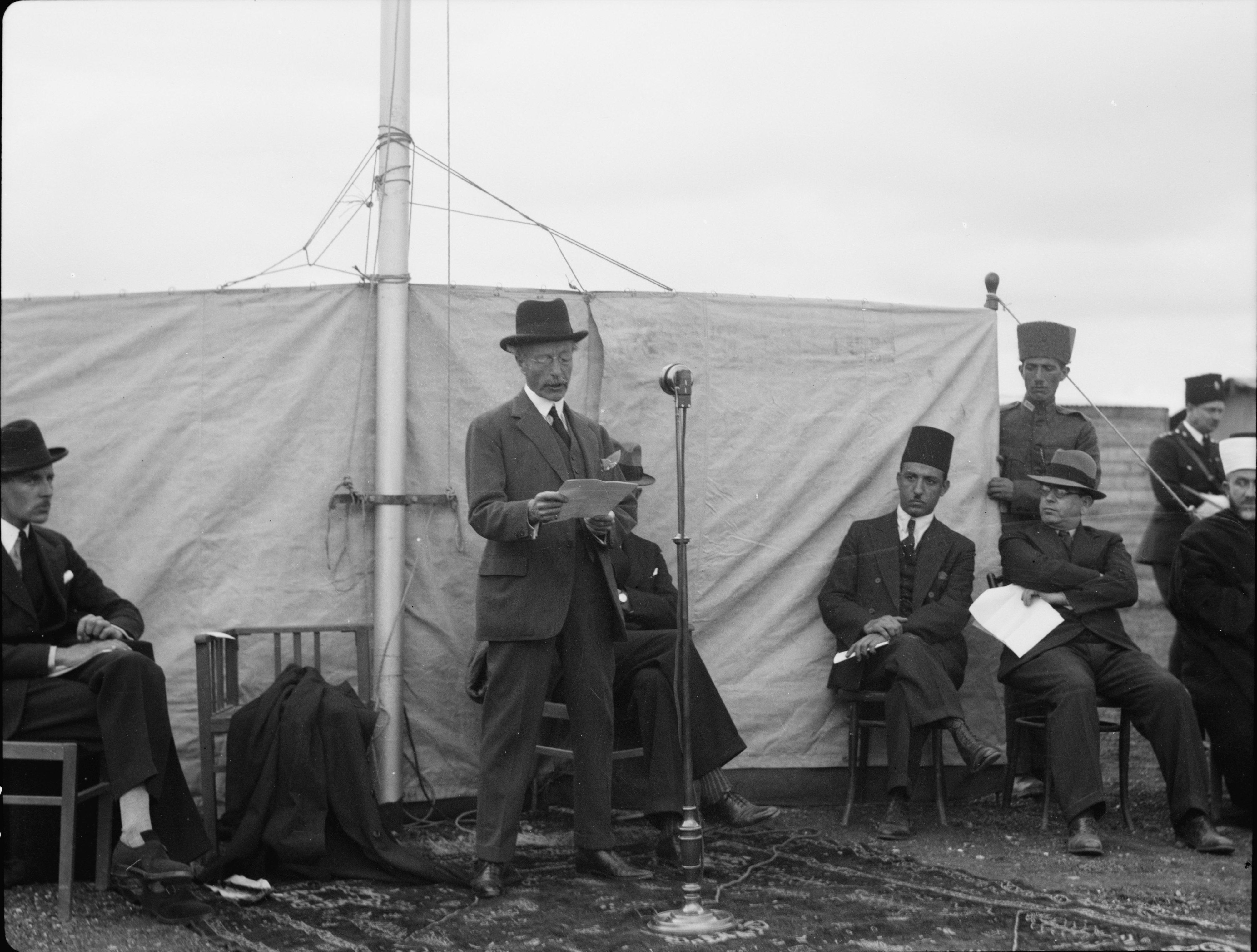 Title: Inauguration of the Palestine Broadcasting Service. March 30 -1[936]. H.E. (i.e., His Excellency) broadcasting the inaugural address [Ramallah] Abstract/medium: G. Eric and Edith Matson Photograph Collection Physical description: 1 negative